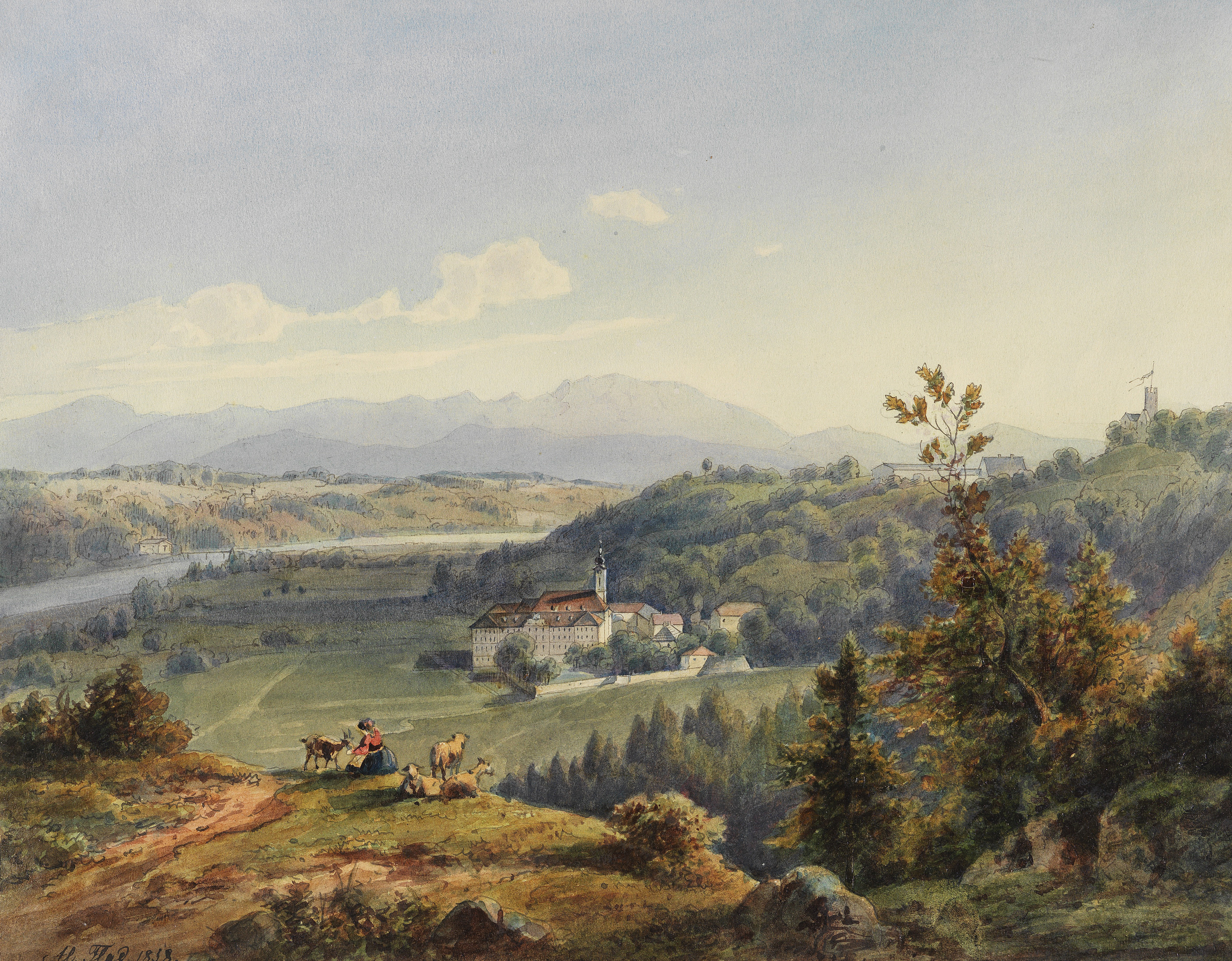 Ansicht von Kloster Schäftlarn